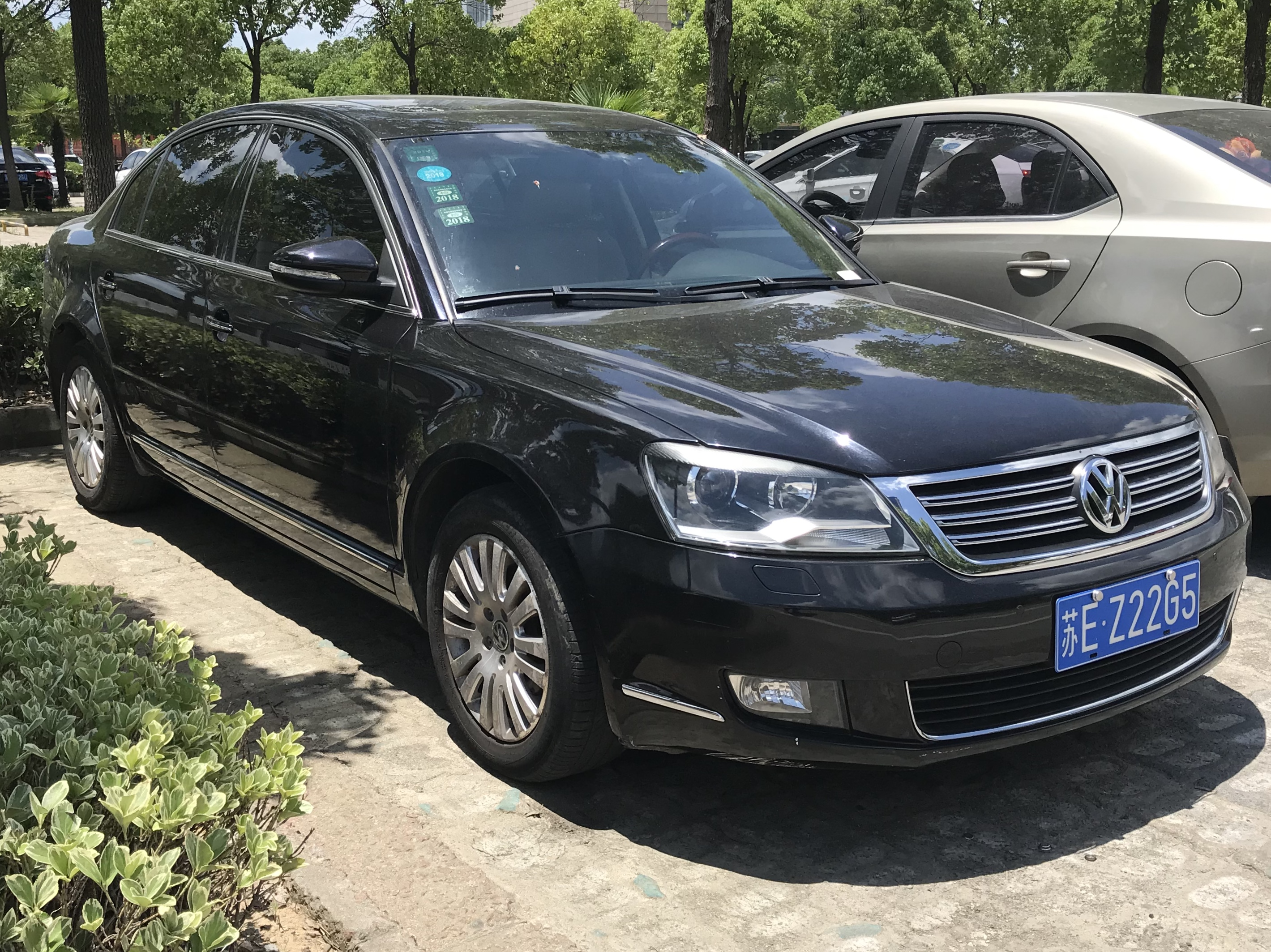 Volkswagen Passat Lingyu facelift